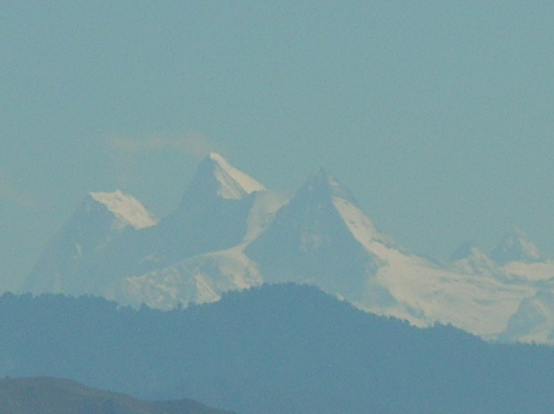 Author-Dr Thakur Naveen Kotwal Brahma 1 and 2 peaks of the kishtwar Himalayas , as seen from Natha top. (J&K,India.)